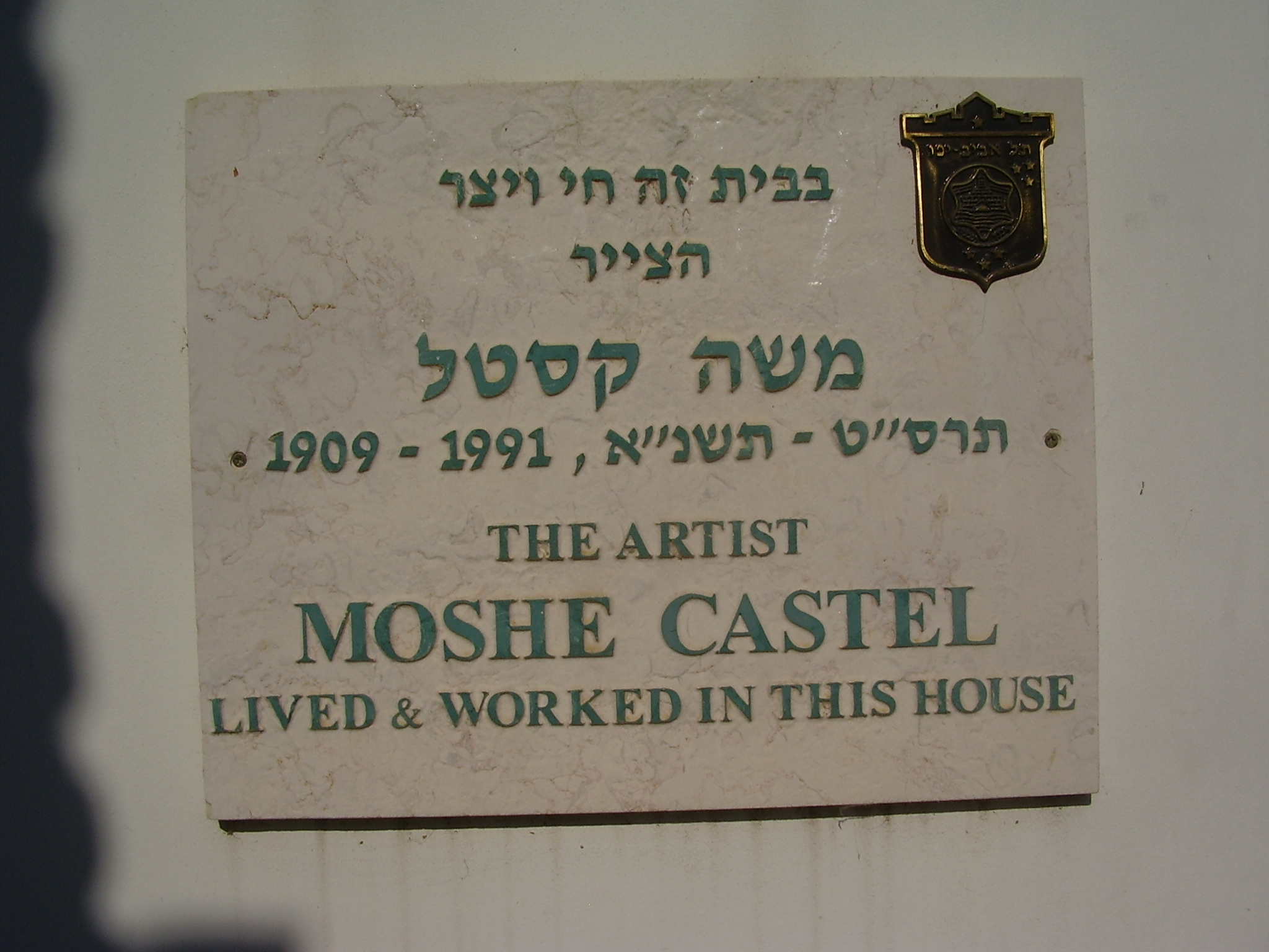 memorial plaque to the painter moshe castel in tel aviv לוחית זיכרון לצייר משה קסטל על ביתו ברחוב עקיבא אריה 11 בתל אביב